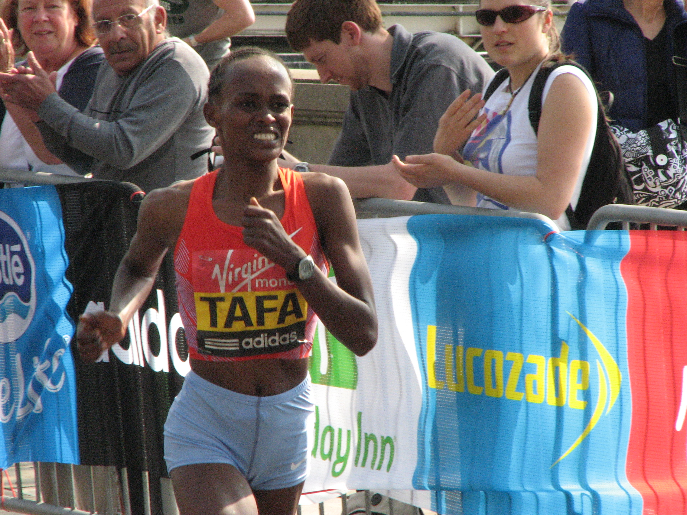 Askale Tafa came eleventh with 2:25:24. Virgin London Marathon, 17 April 2011. Taken from 24 and a half miles, at the (western) junction of Victoria Embankment and Temple Place, very close to the Walkabout.